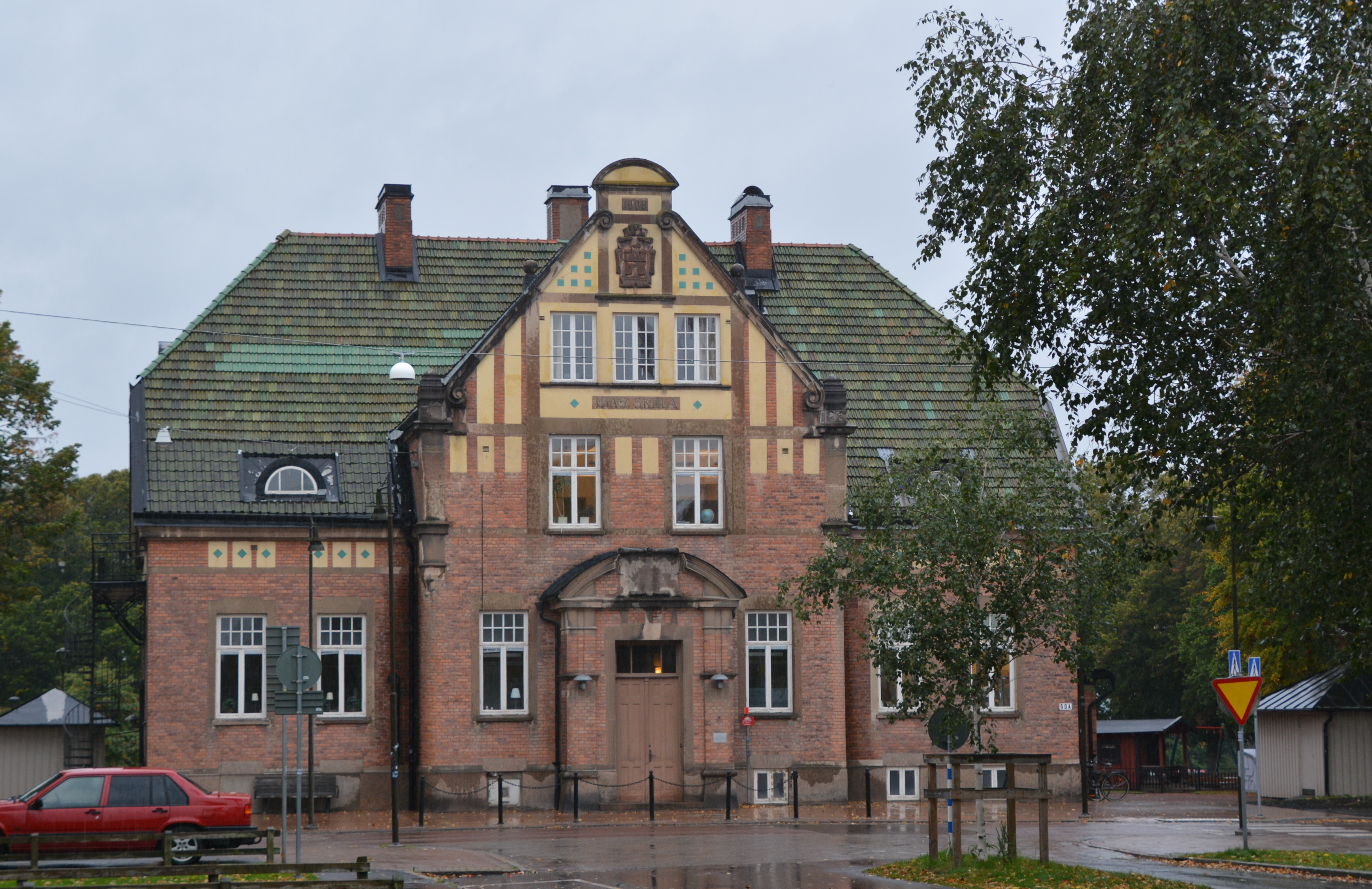 Idas skola, Jönköping